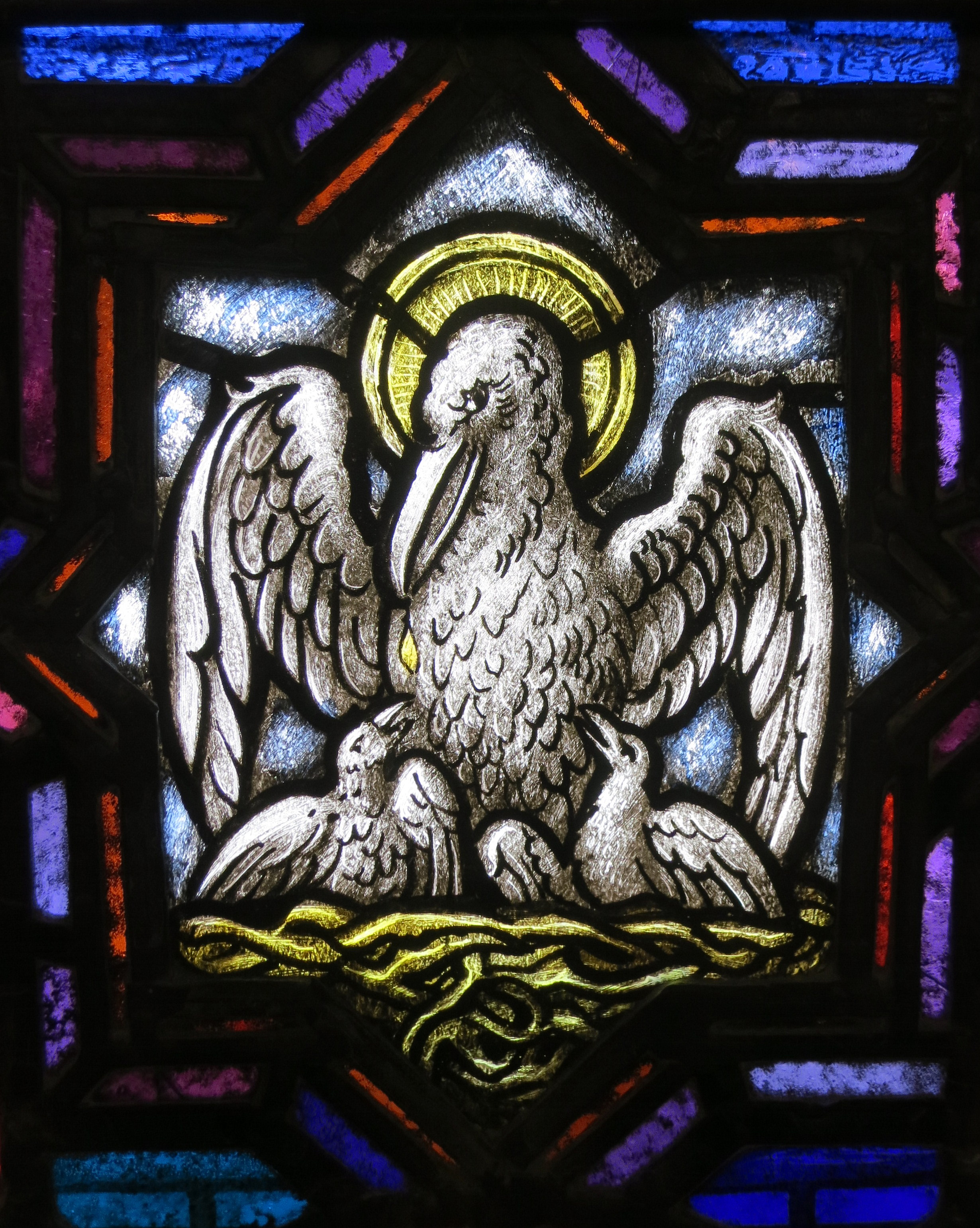 Saint Bernard Catholic Church (Corning, Ohio) - stained glass, pelican